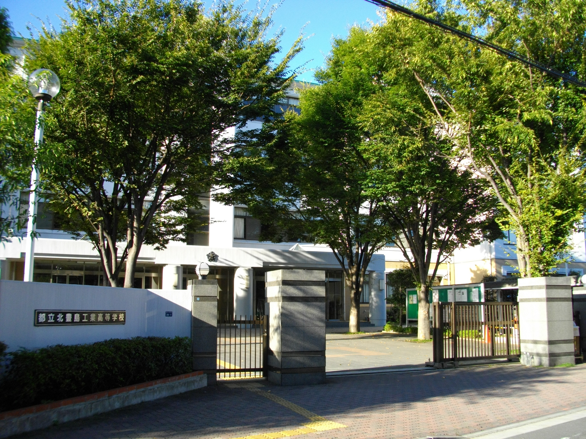 Kitatoshima Technical High School